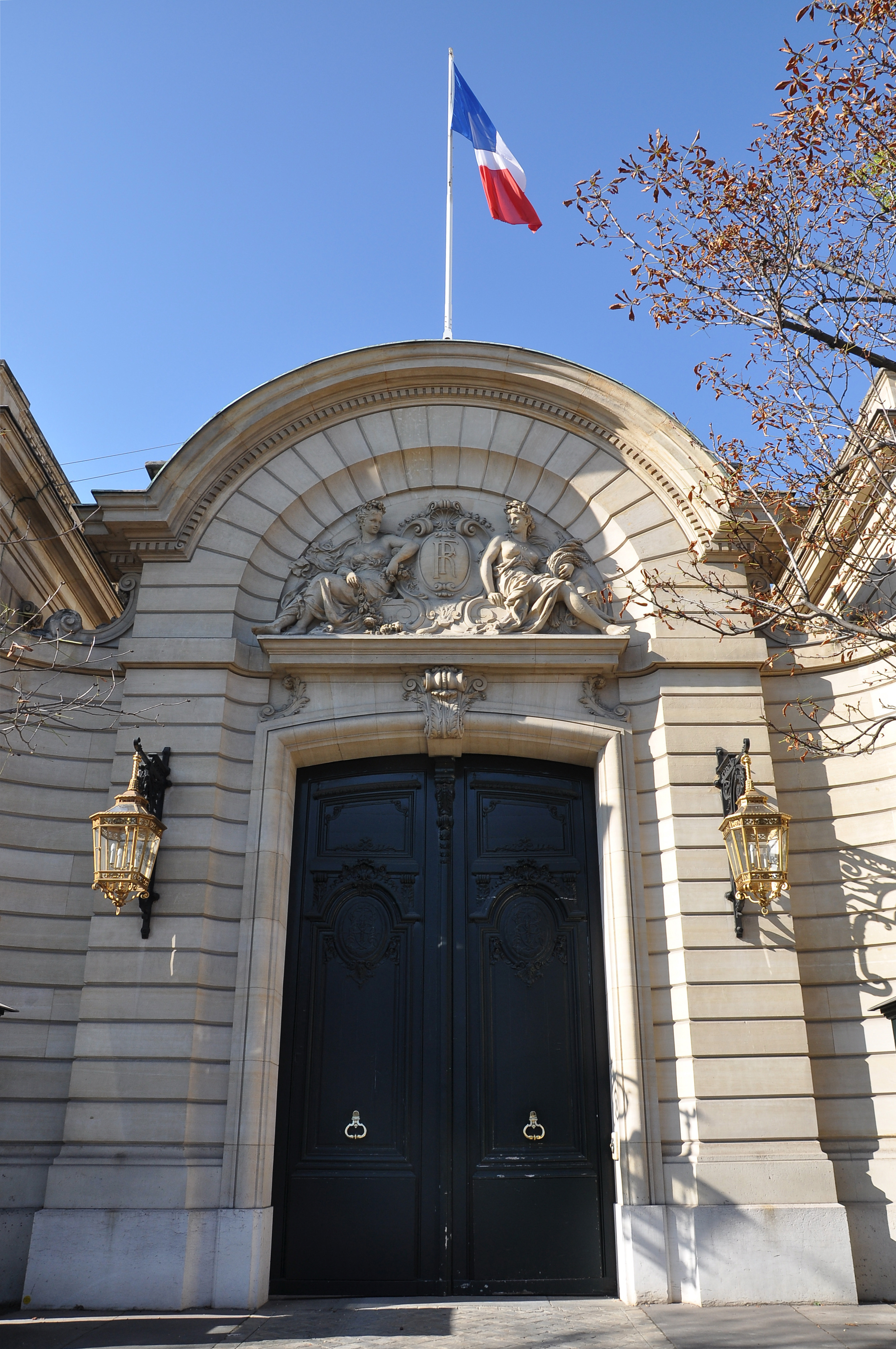 Hôtel de Marigny located at 23 avenue de Marigny in the 8th arrondissement of Paris, France .